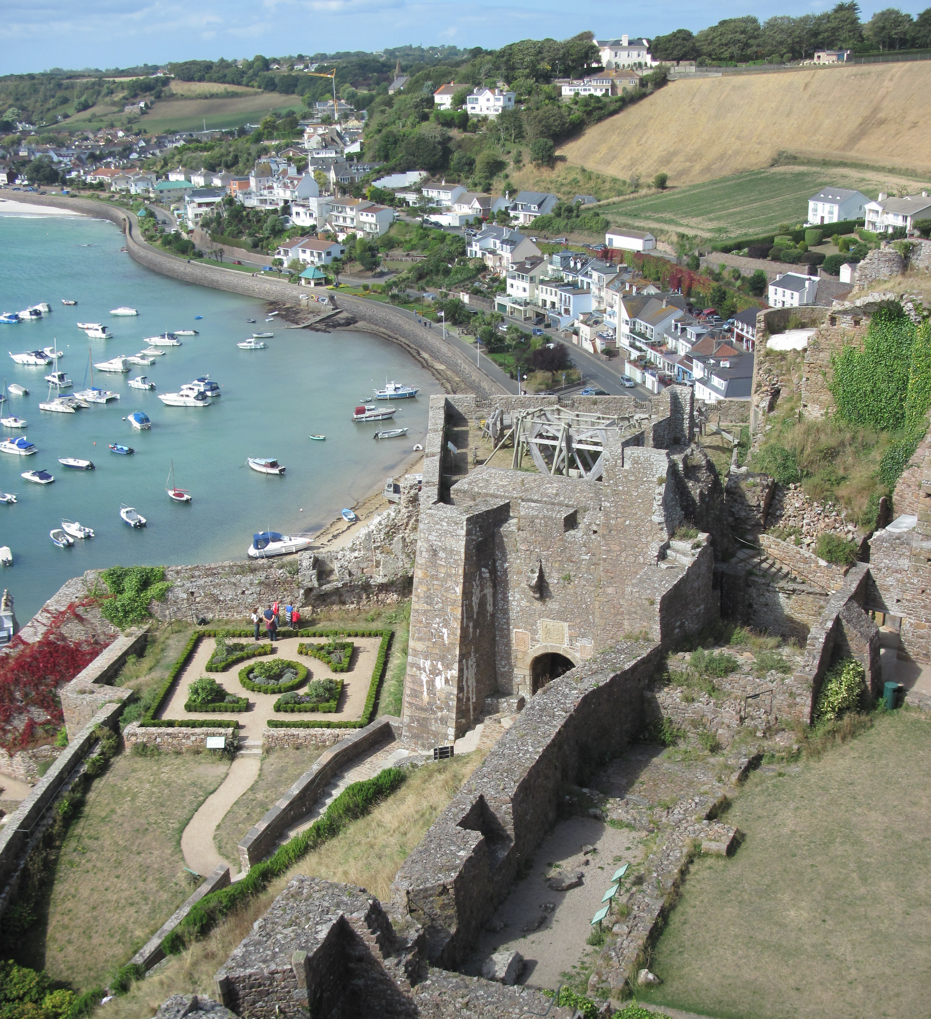 12 September 2009: Saint Clement, Grouville, Saint Martin, Jersey